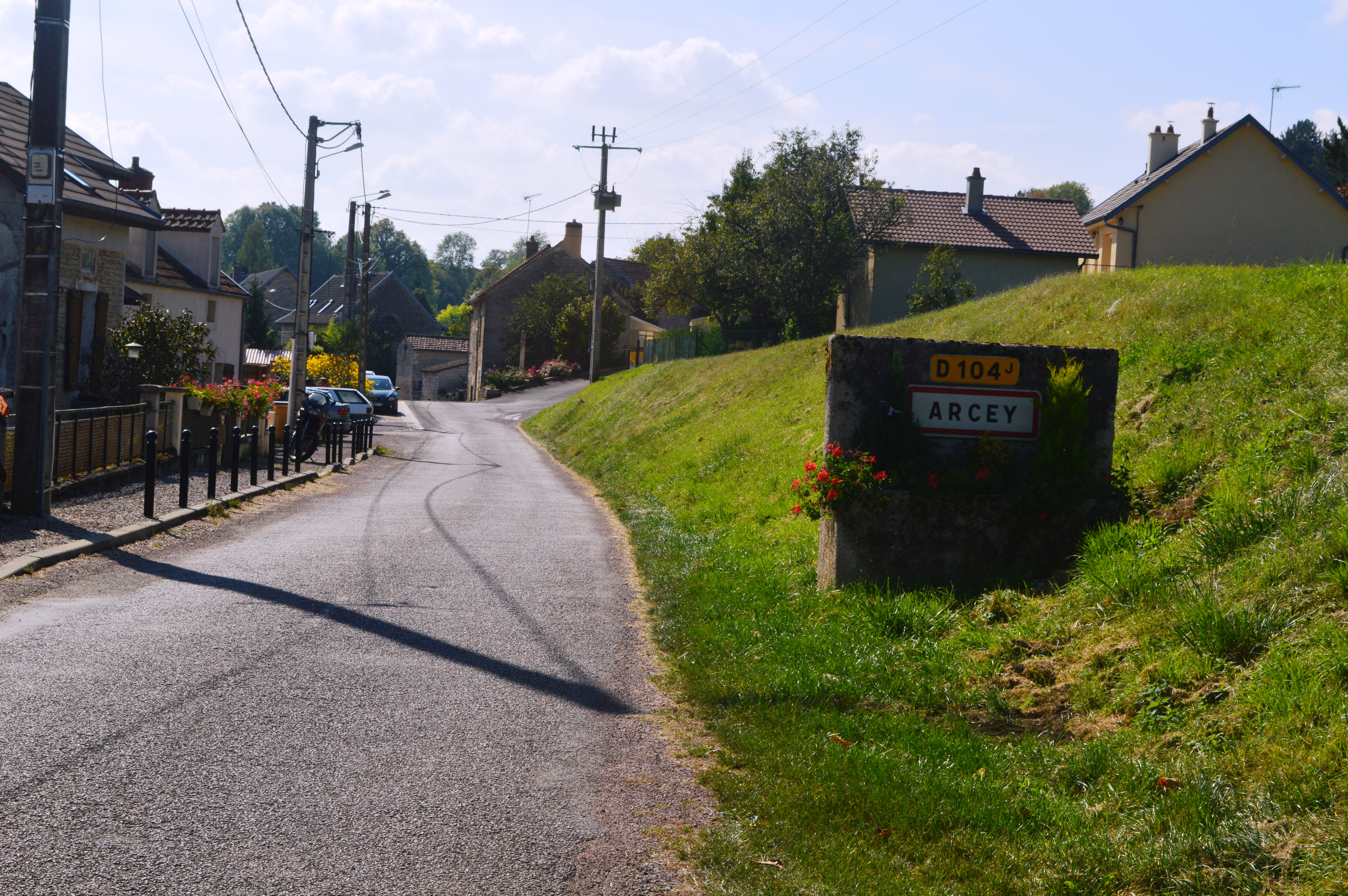 The entry to Arcey